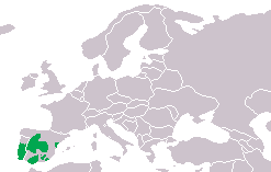 Distribution of Pleurodeles_walti, based on Nöllert/Nöllert: "Die Amphibien Europas"